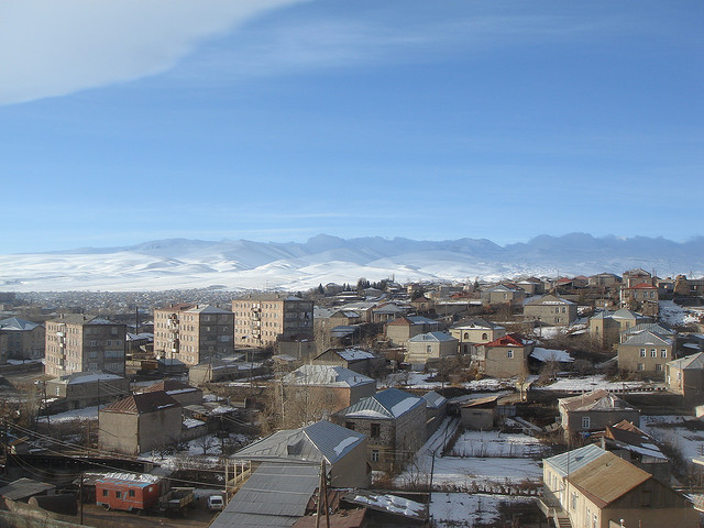 Gavar in winter, December 2009.